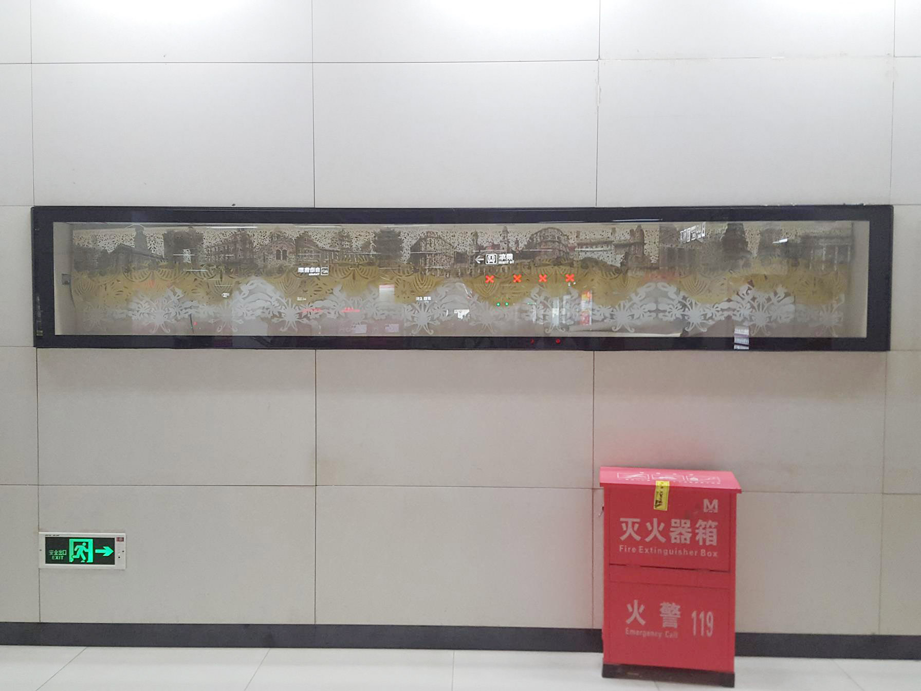 Art Box in Qingnian Road Station, Wuhan Metro